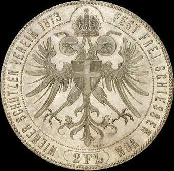 2 florin (Austria) 1873 commemorative (100th anniversary of Wiener Schützverein) - reverse